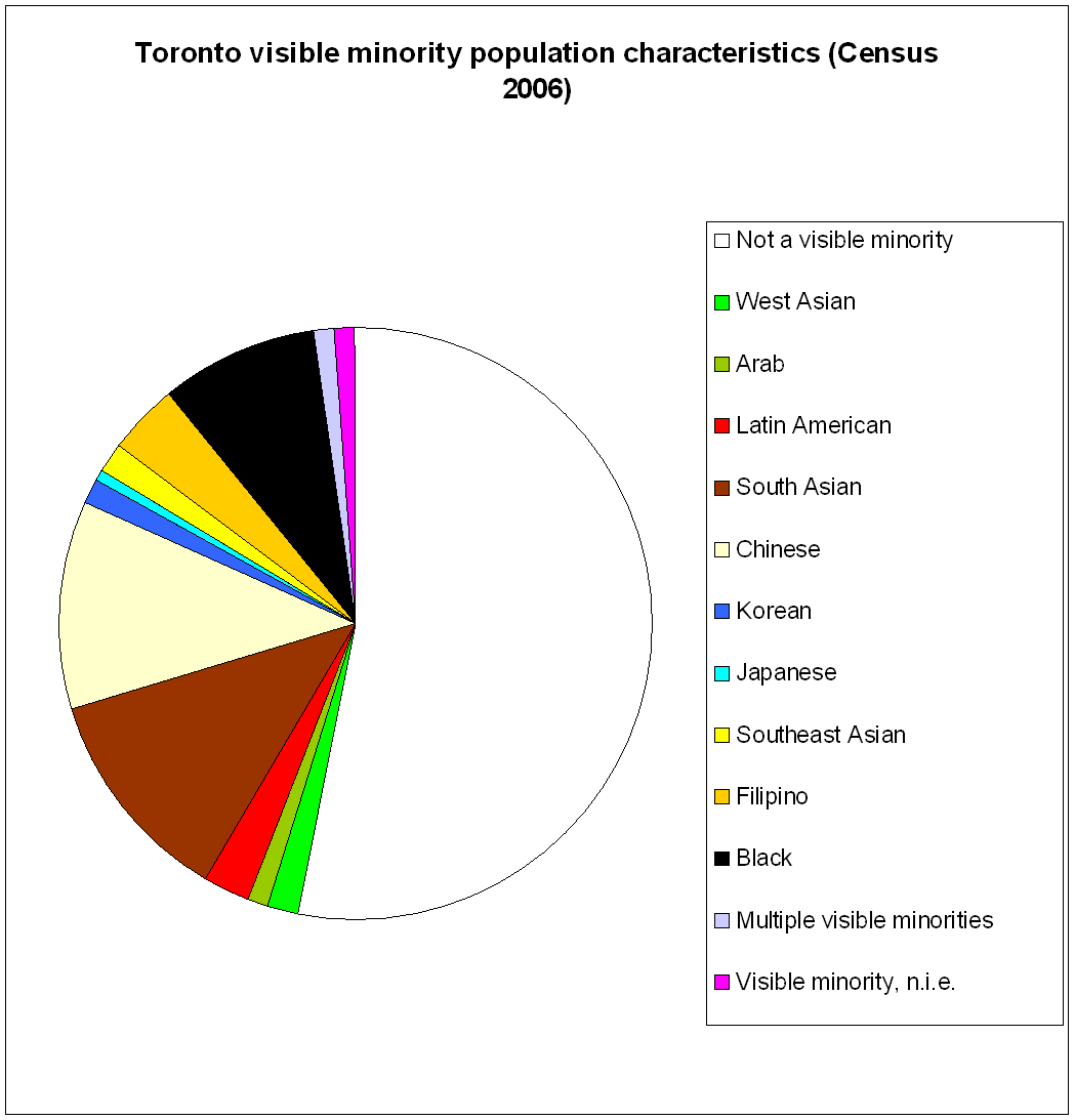 Pie chart showing Toronto's visible minority population characteristics according to Canada Census 2006.